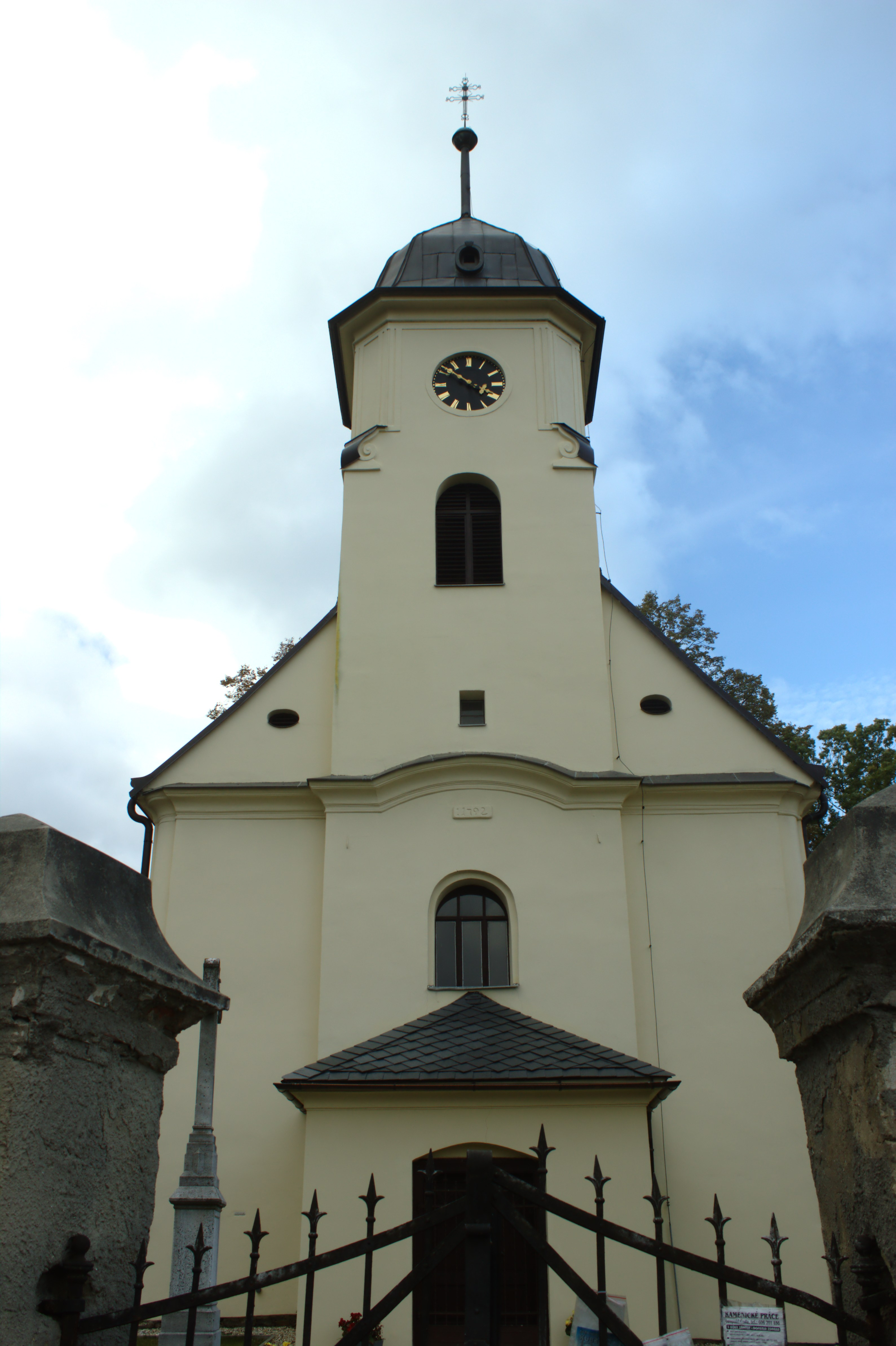 Church of Saint Margaret in Čermná ve Slezsku, CZ